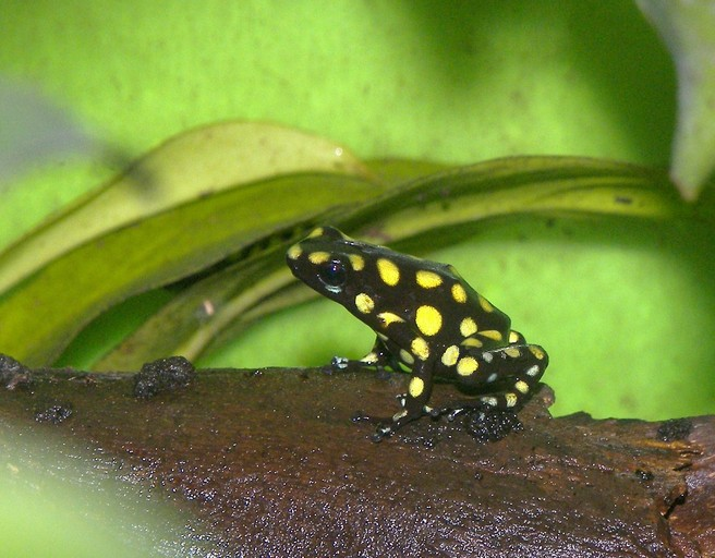 Oophaga histrionica